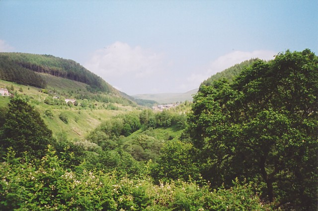 The valley of the Afan at Abercregan. Looking east up the valley of the River Afan at Abercregan towards Cymmer in the far distance. The photo was taken from the trackbed of the South Wales Mineral Railway which ran from Briton Ferry up the west side of the valley to Cymmer and then to Glyncorrwg. Another railway - the Rhondda & Swansea Bay - ran on the east side of the valley. Both have now become cycle paths. There is now very little sign that this valley was once full of mining activity.